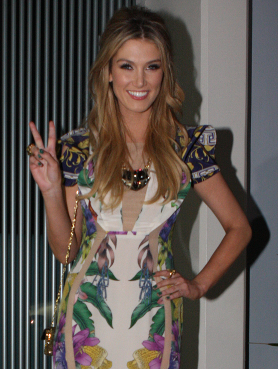 Delta Goodrem at the The Voice Judges, Celebrities Dine At Bondi Icebergs Dining Room and Bar, Sydney, Australia 2012.